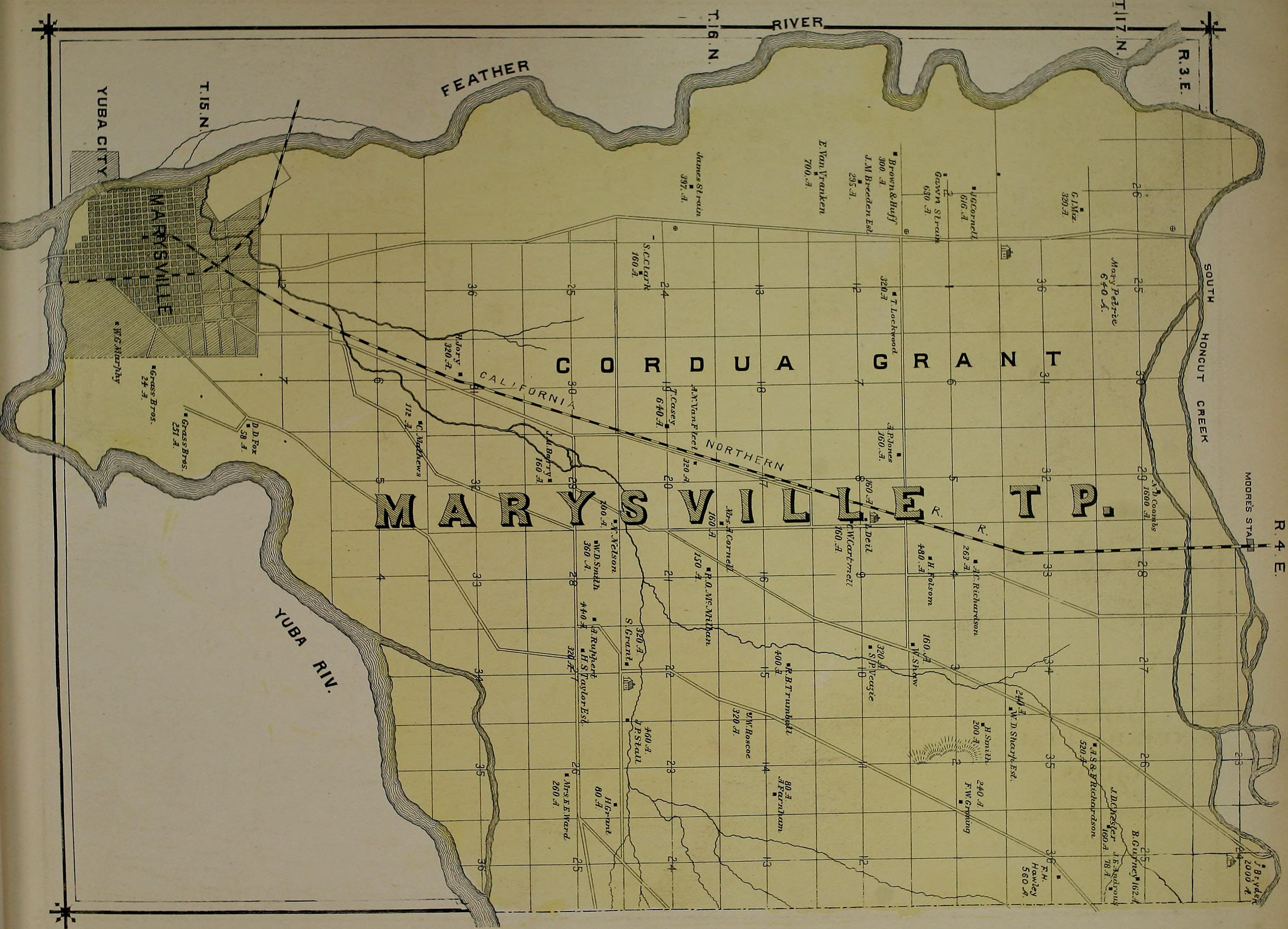 Title: History of Yuba County, California, with illustrations descriptive of its scenery, residences, public buildings, fine blocks and manufactories Year: 1879 (1870s) Authors: Chamberlain, William Henry, 1855- Wells, Harry Laurenz, 1854-1940 Subjects: Publisher: Oakland, Calif. : Thompson & West Text Appearing Before Image: V*? PUBLISHED BY ^^ ~/879 - f.!fi» -v ^r* X\ jMtJ..« iadi«,i ^ Sauuto \Ste^s Text Appearing After Image: '